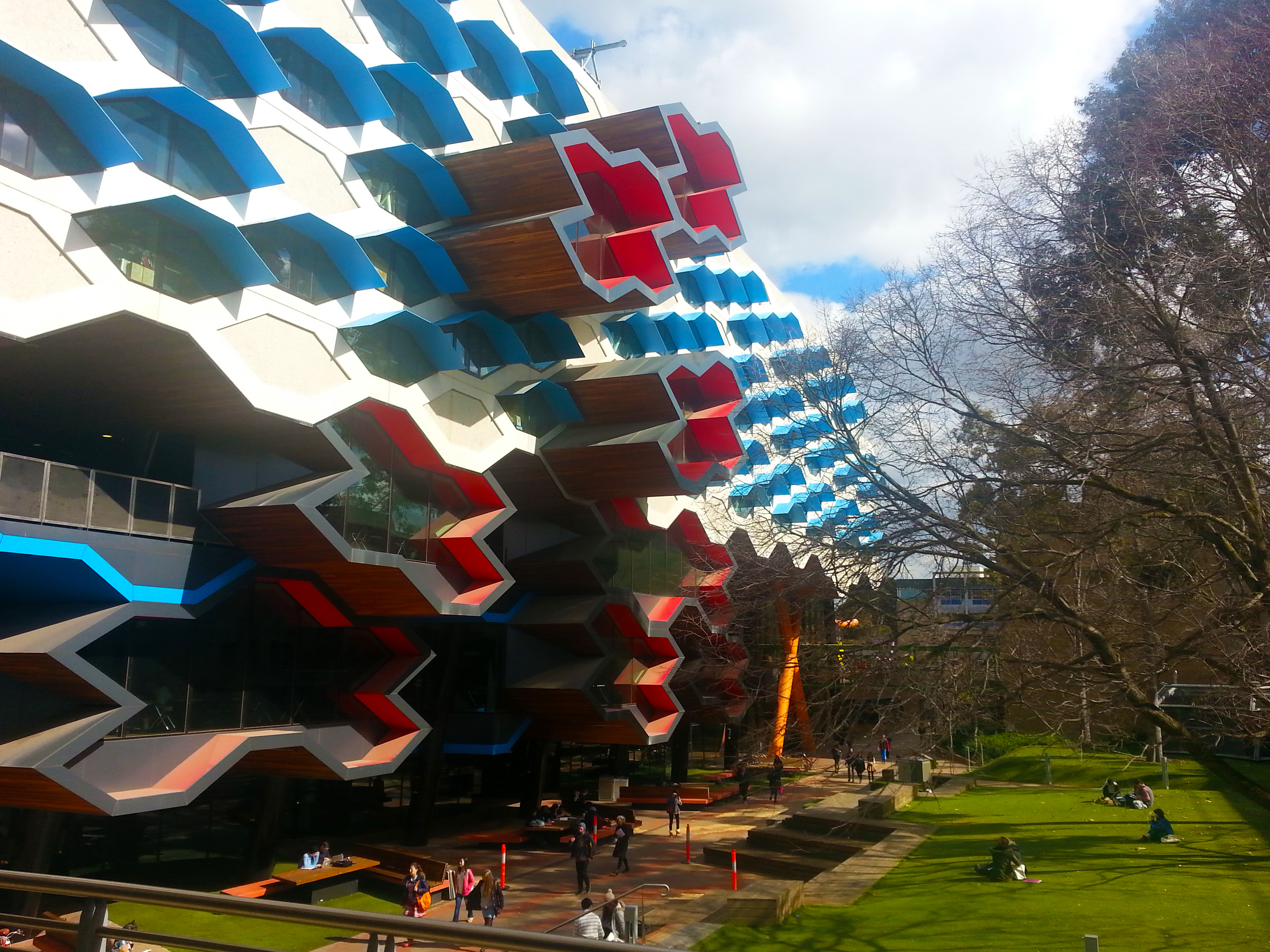 La Trobe Institute for Molecular Science (LIMS), Melbourne Australia - side view